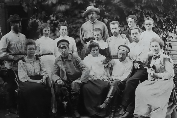 In the middle: Vladimir A. Anzimirov (in straw hat) with the teachers of his school at Berezino village. Next to it (right) E.N. Volyntsev. Right with a cigarette - student Boris Evrenevich Raikov, behind him in a cap Alexander Anzimirov. Standing in the hat Reinhold with his wife Lydia B. Anzimirova. Sit: with a big dog Nikolai Voskresensky, left Lydia Vatslovna Byalkovskaya (?), Right Mikhail Pyatakin. Birevo estate, Klin County, summer 1901